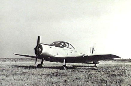 Commonwealth Aircraft Corporation (CAC) CA-25 Winjeel trainer aircraft shown at No 1 Basic Flying Training School. This is one of the two prototypes for later production aircraft which replaced Tiger Moths and Wirraways in the RAAF inventory.